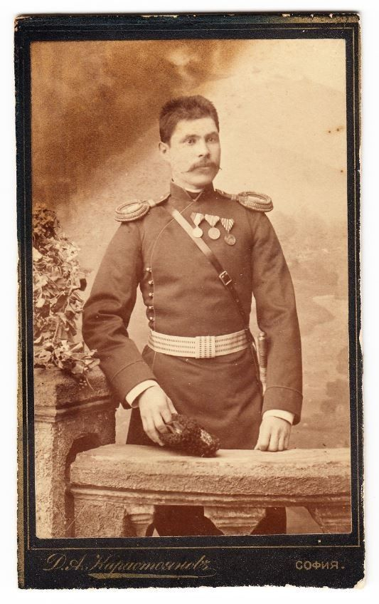 Podporuchik Stefan A. Dobrev, born in Karlovo, Bulgaria, porporuchik since 13 September 1885, poruchik since 7 november 1888, captain since 1892, served in 19th Infantry Regiment and 9th Reserve Regiment